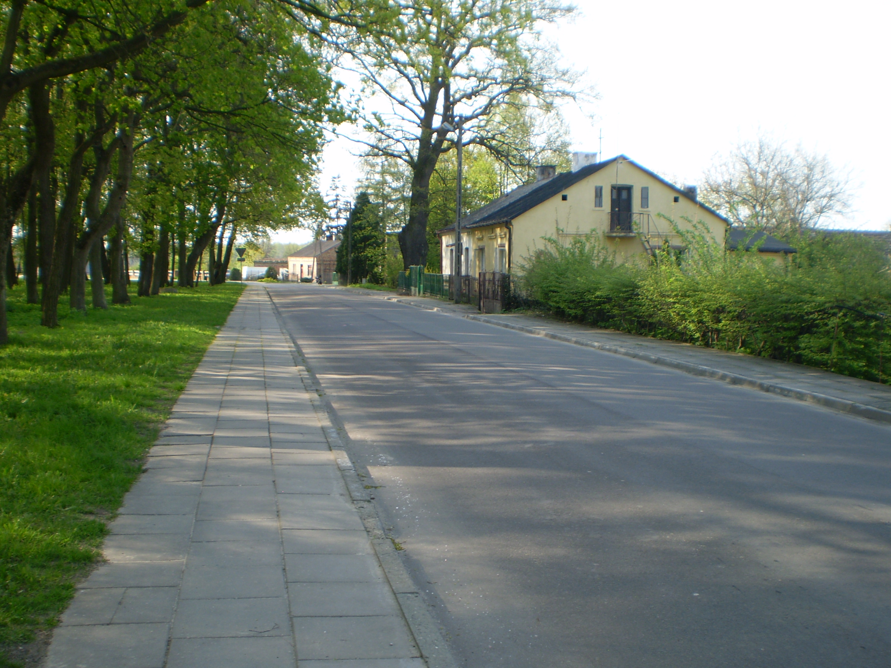 Zadzim